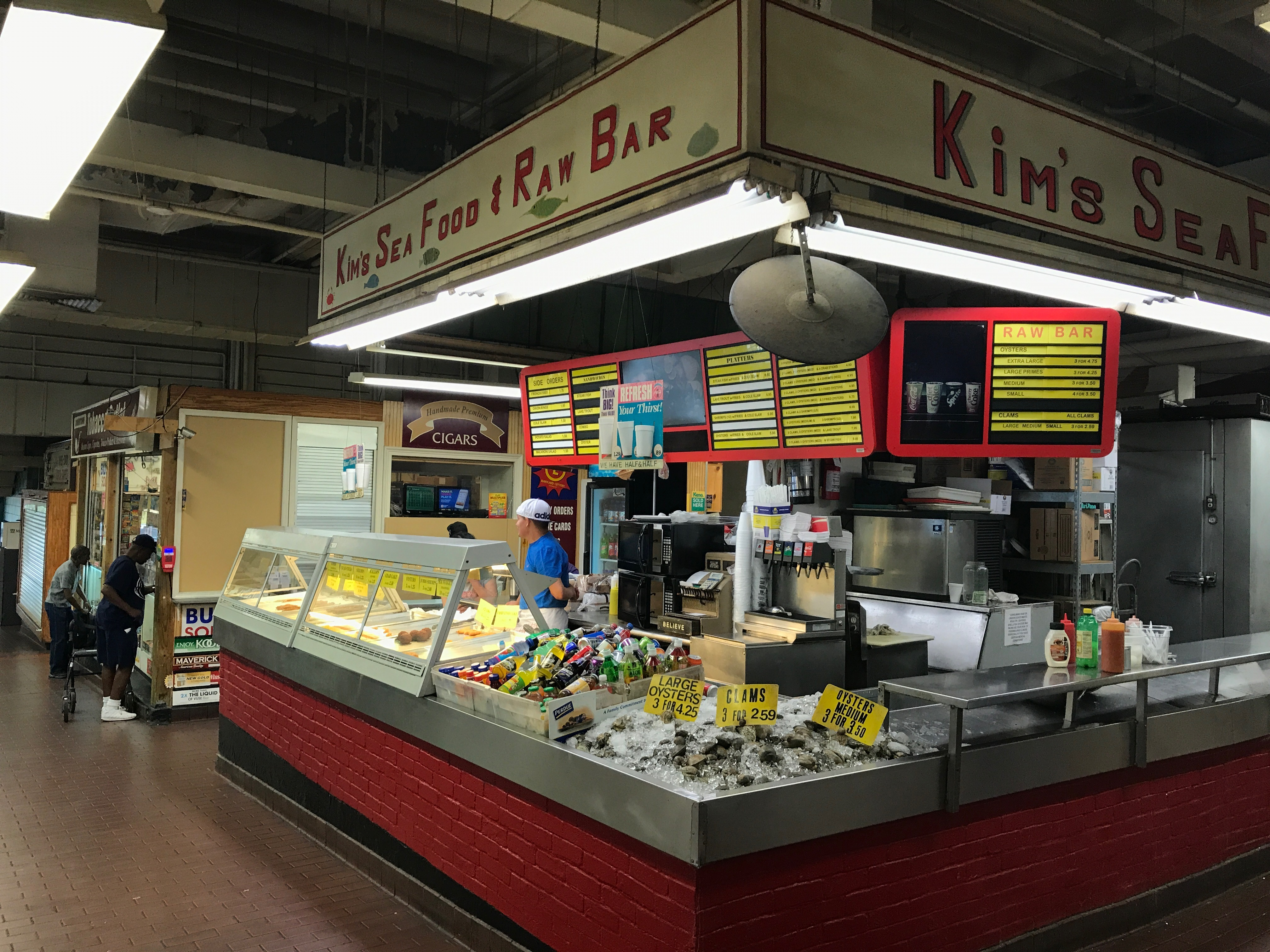 Photograph by Eli Pousson, 2017 June 15.